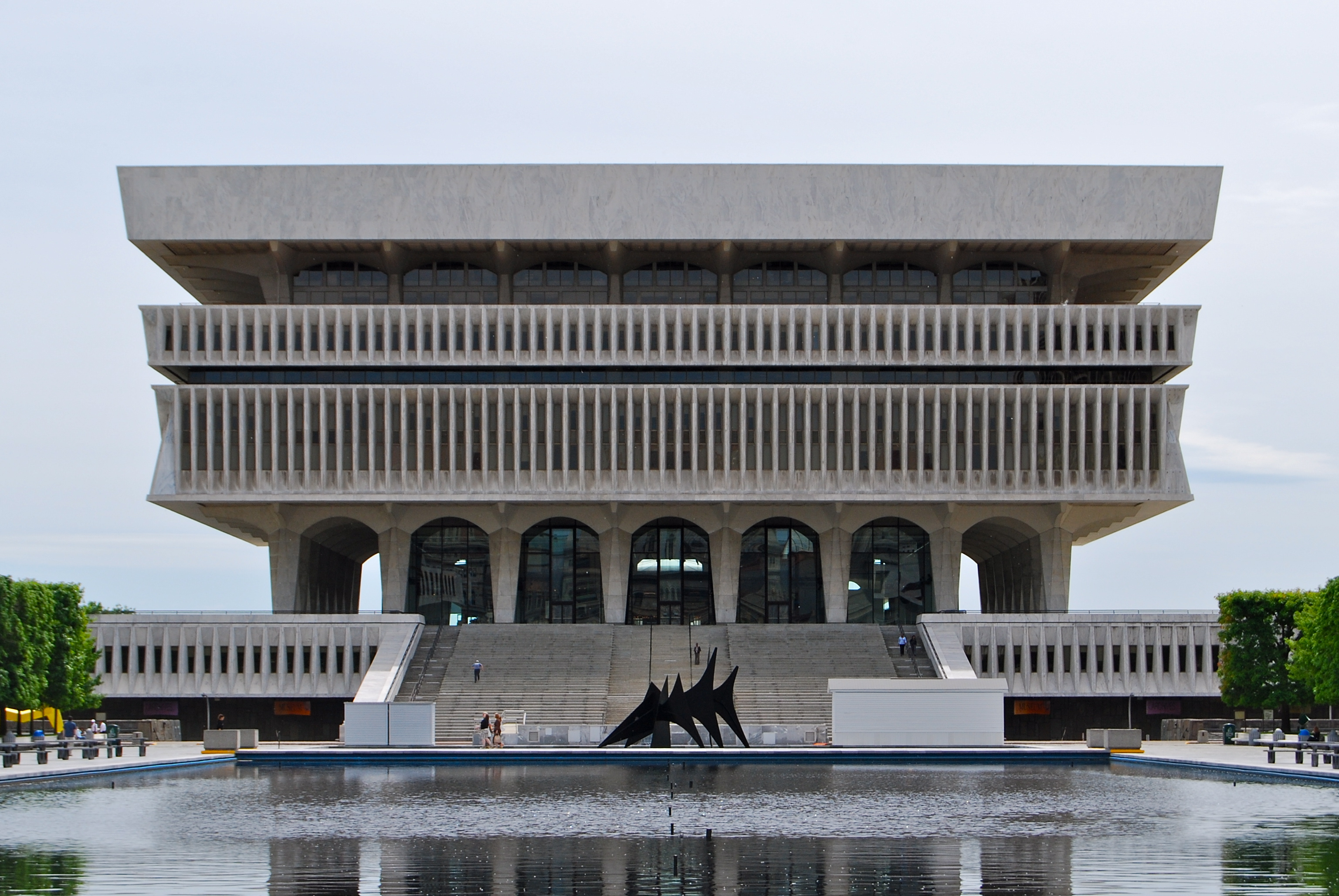 The New York State Cultural Education Center, located on the south end of the Empire State Plaza in Albany, New York, United States, which houses the New York State Museum, New York State Archives, and New York State Library